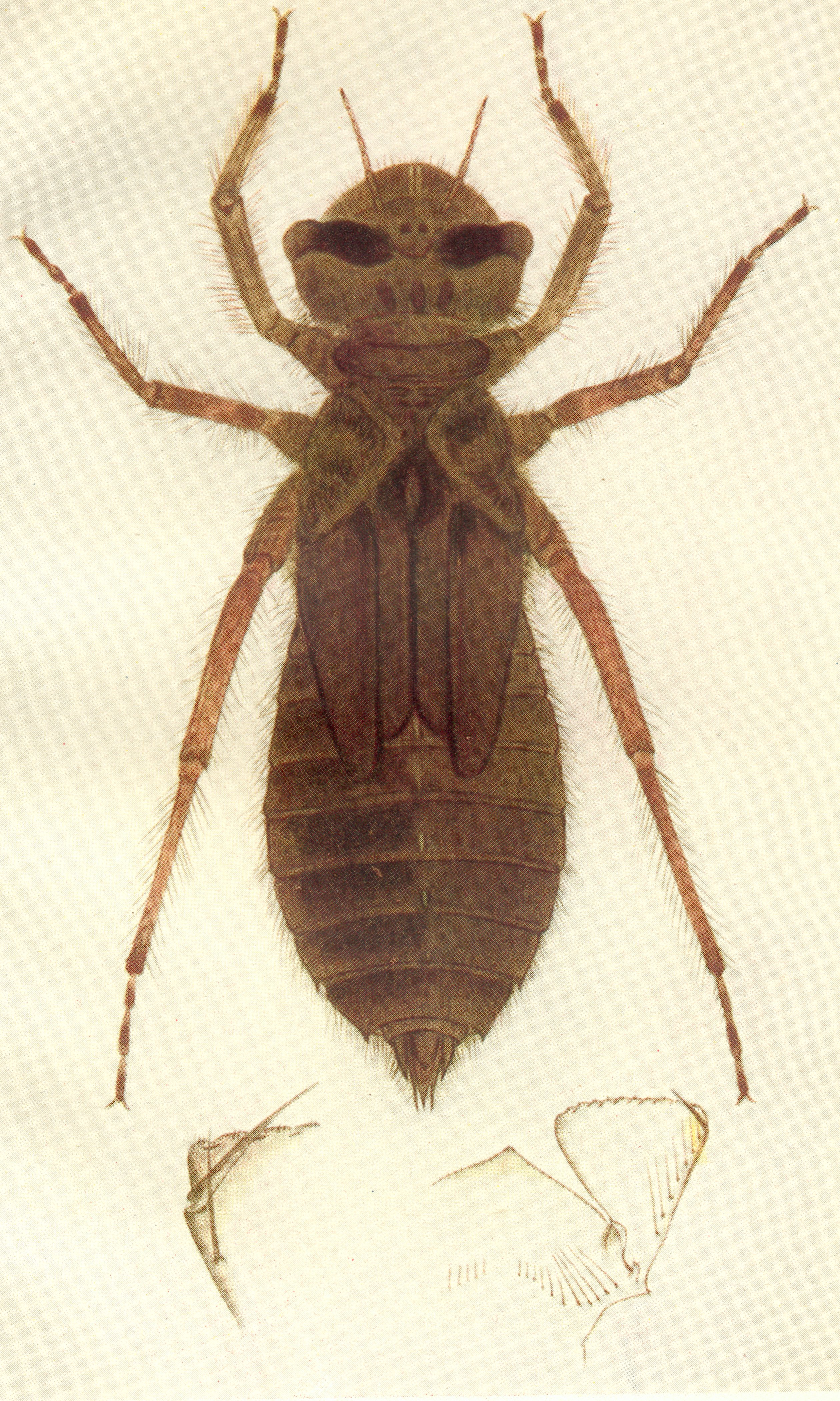 Drawing of Libellula quadrimaculata Naiad x5 Mentum and palpus x6 Moveable Hook x18 Drawn from an example dredged from the Black Pond, Esher Common, Surrey, on 21 Feb. 1922; and empty skins for comparison.